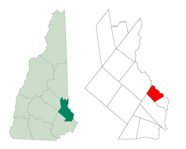 Created from Boundary/Border Outline Files of the Libre Map Project which held a BY-SA creative commons license. Data origionally from 2000 US Census boundary data.